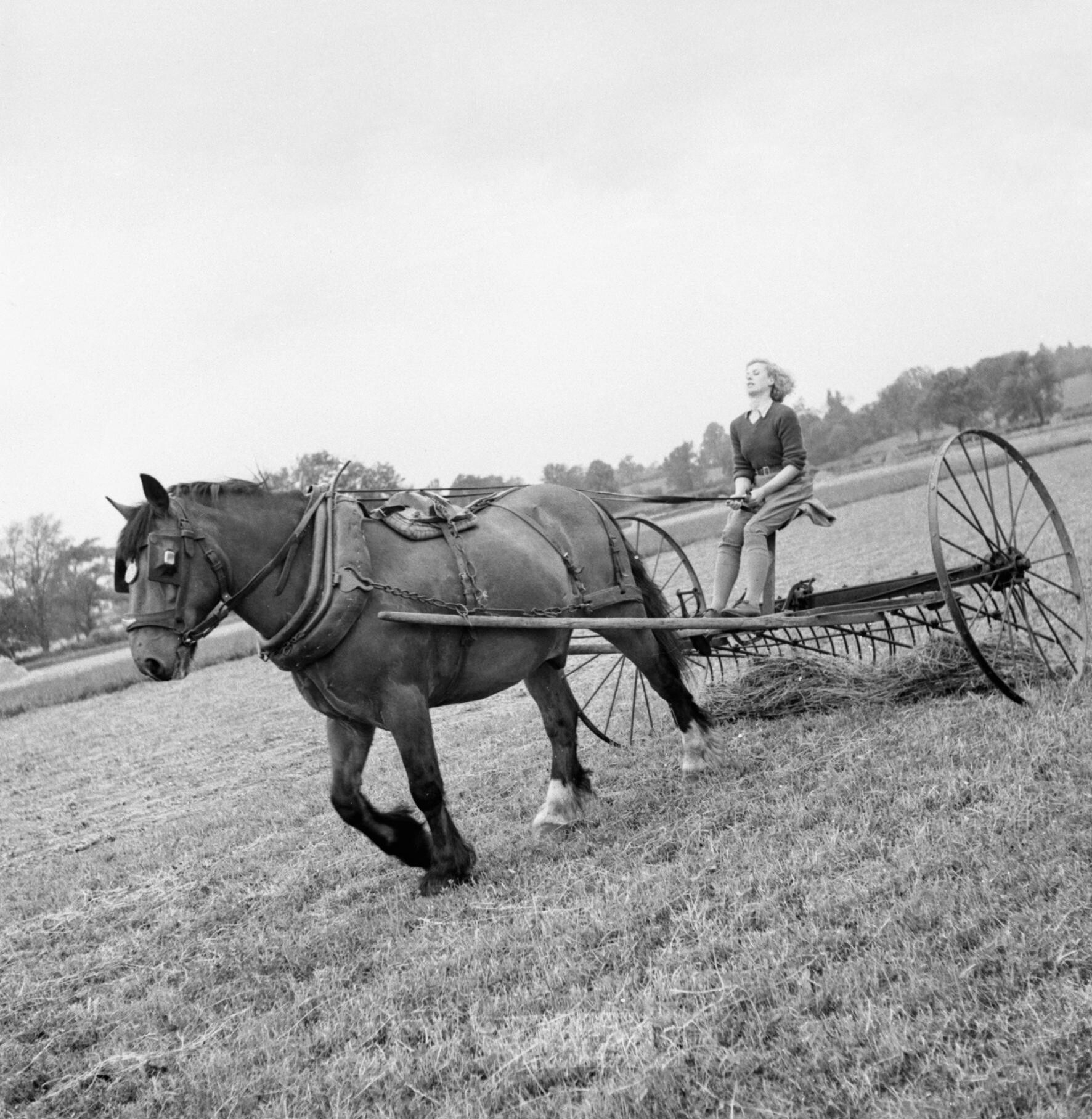 New recruit to the Women's Land Army, Iris Joyce, learns to drive the horse-drawn hay rake as part of her training at the Northampton Institute of Agriculture near Moulton in 1942. 19 year old Iris Joyce learns to drive a horse-drawn hay rake as part of her training at the Northampton Institute of Agriculture near Moulton in 1942.